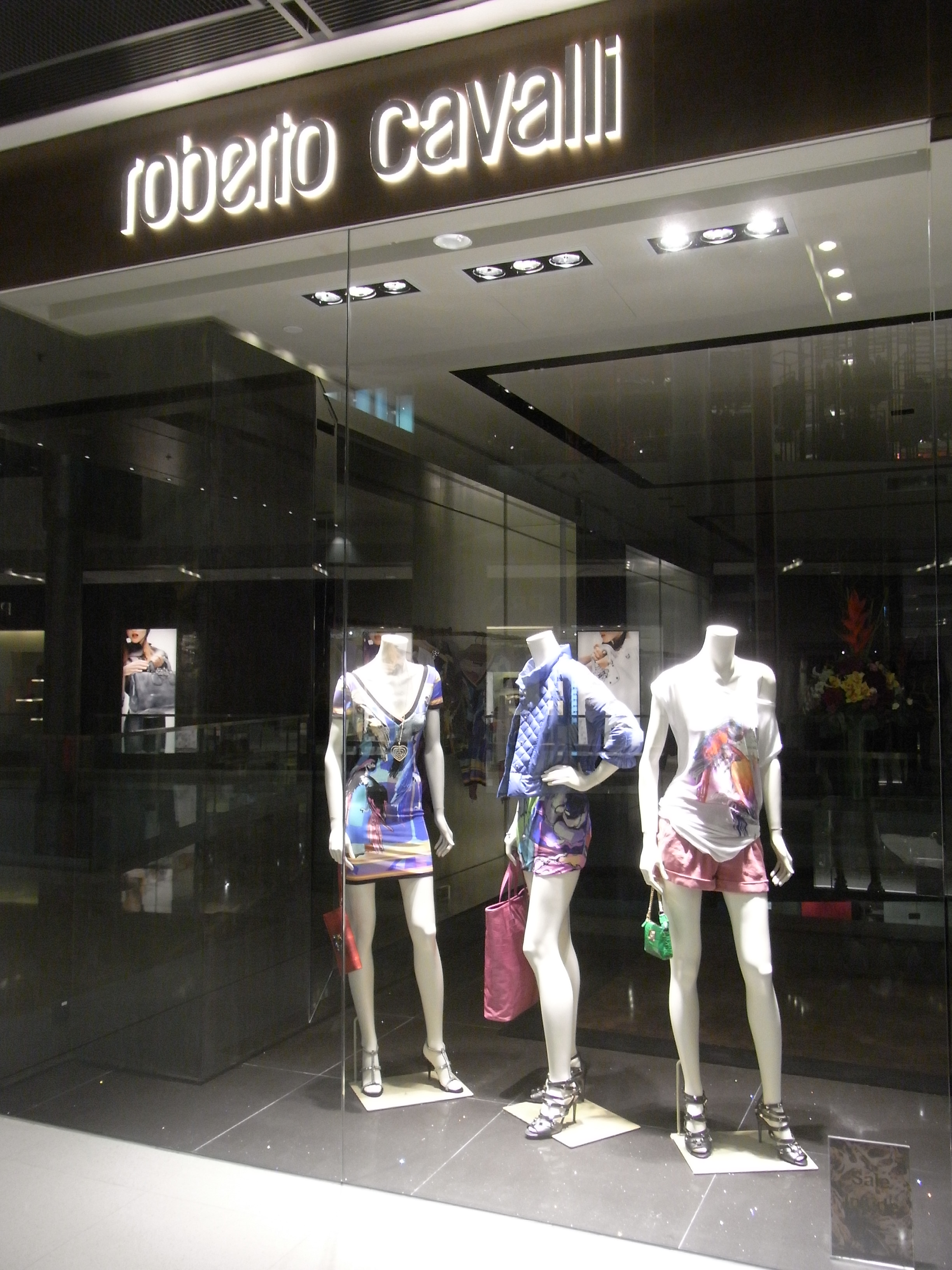 中環 Roberto Cavalli